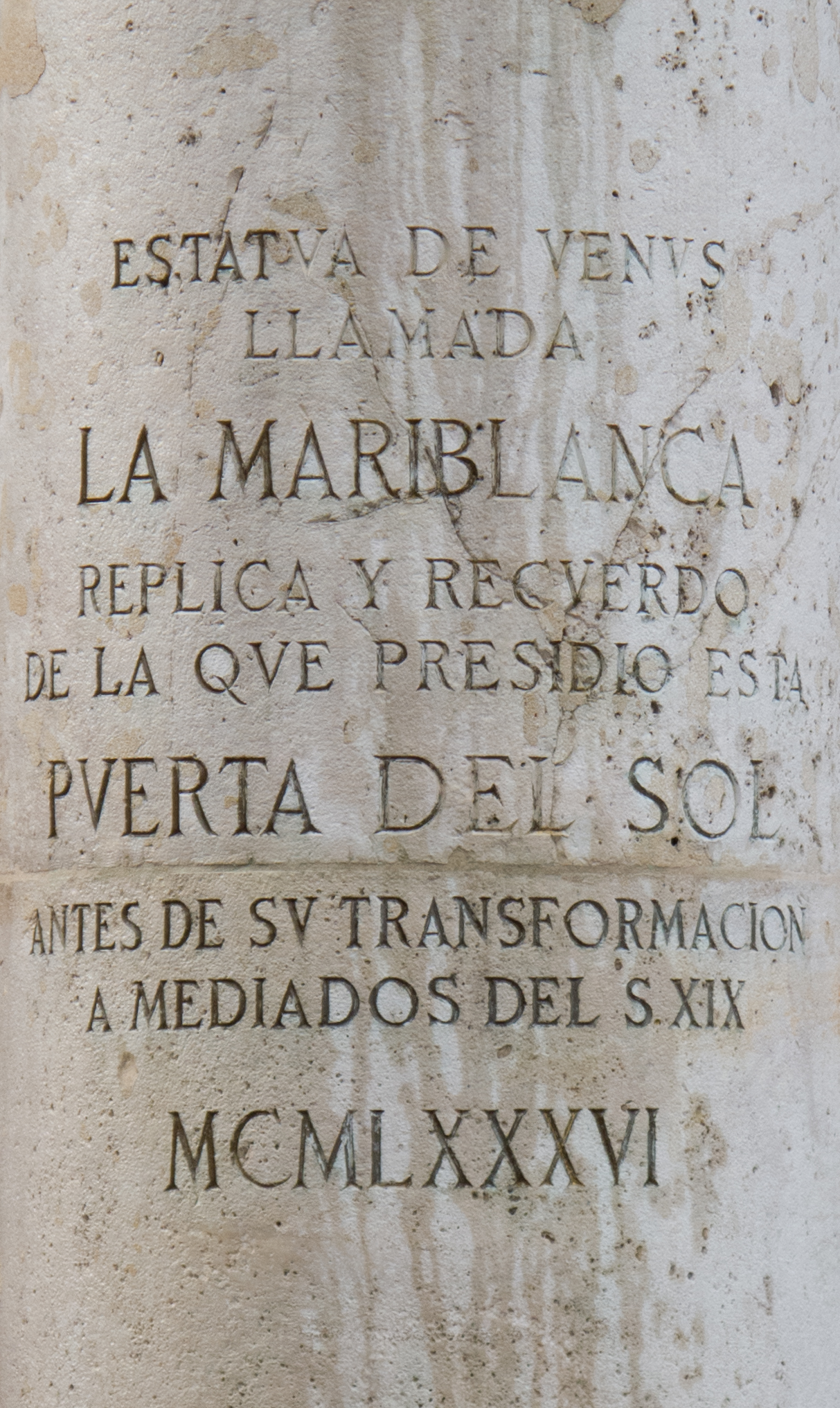 Inscription on the basement of the statue of the Mariblanca, Puerta del Sol, Madrid, Spain (Statue of Venus called la Mariblanca, replica and memory of the one which presided this Puerta del Sol before its tranformation in the middle of 19th century. MCMLXXXVI-1986-).